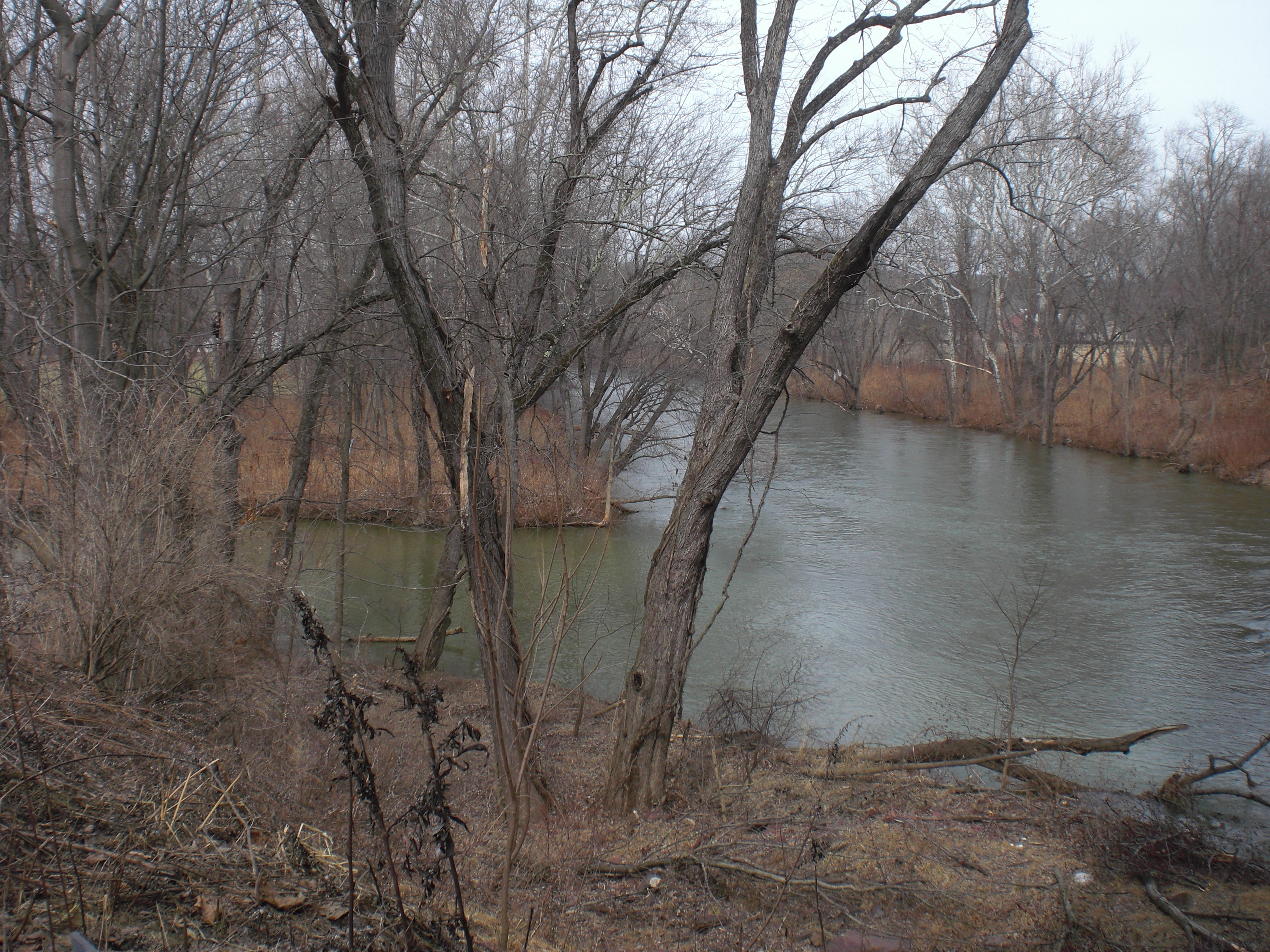 The confluence of Little Fishing Creek (left) with Fishing Creek (right) north of Bloomsburg